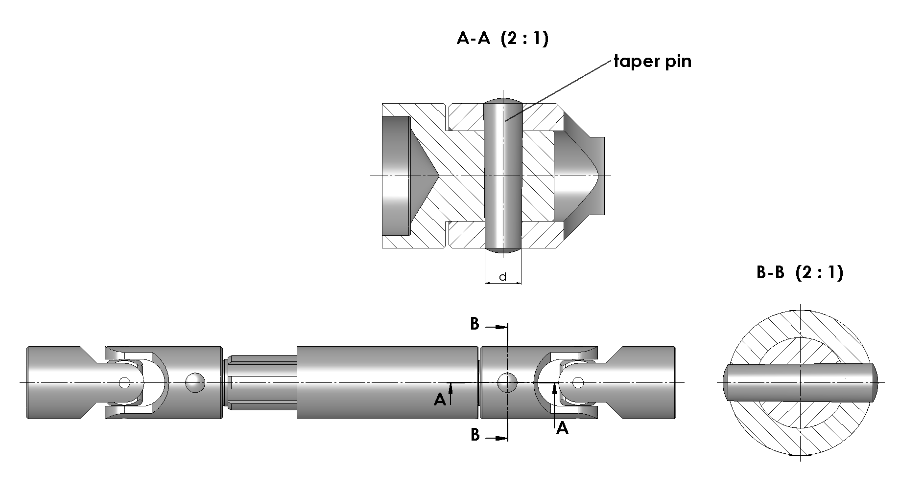 example of use for a taper pin (ISO 2339:1986).